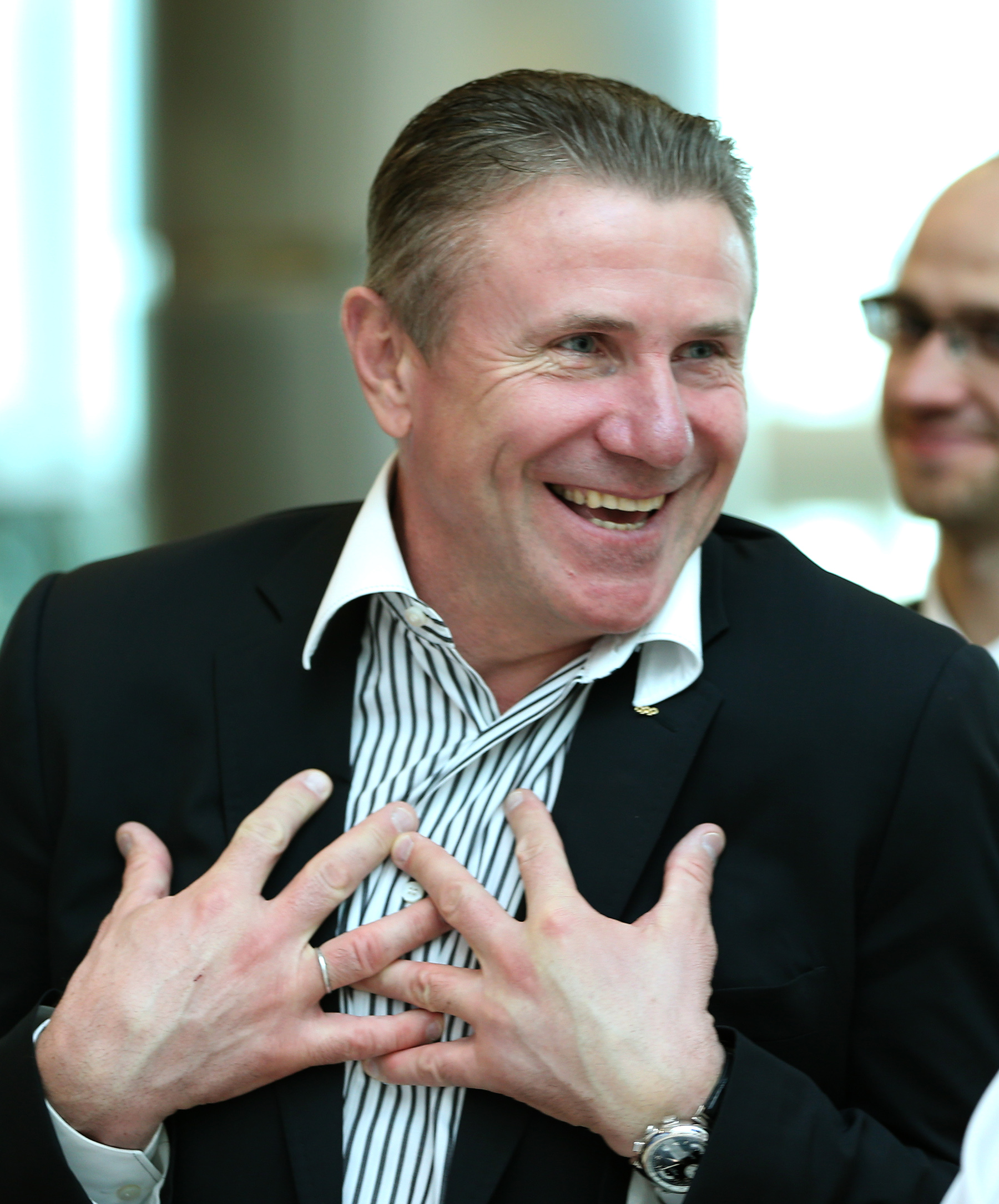 Legendary Ukrainian pole vaulter Sergey Bubka during a visit to Qatar's ASPIRE Academy.